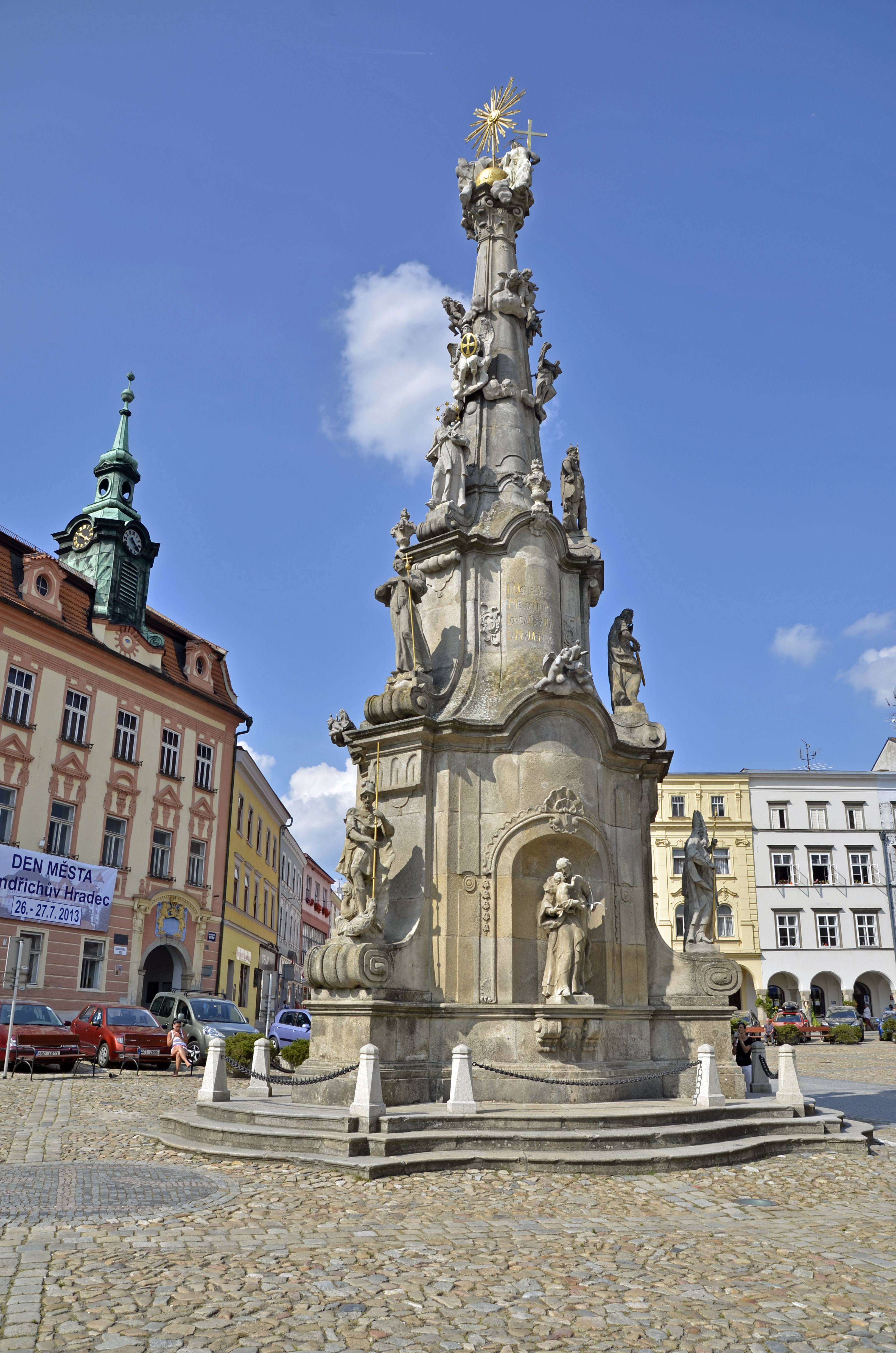 Jindřichův Hradec - Monument on the Market Place (Czech Republic)